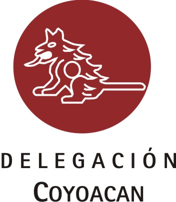 Logo of Coyoacan, D. F., based on the official image.